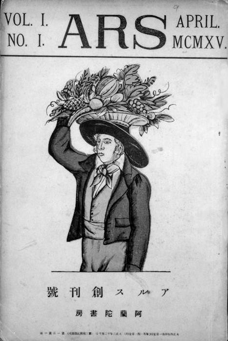 Cover of the first issue of ARS